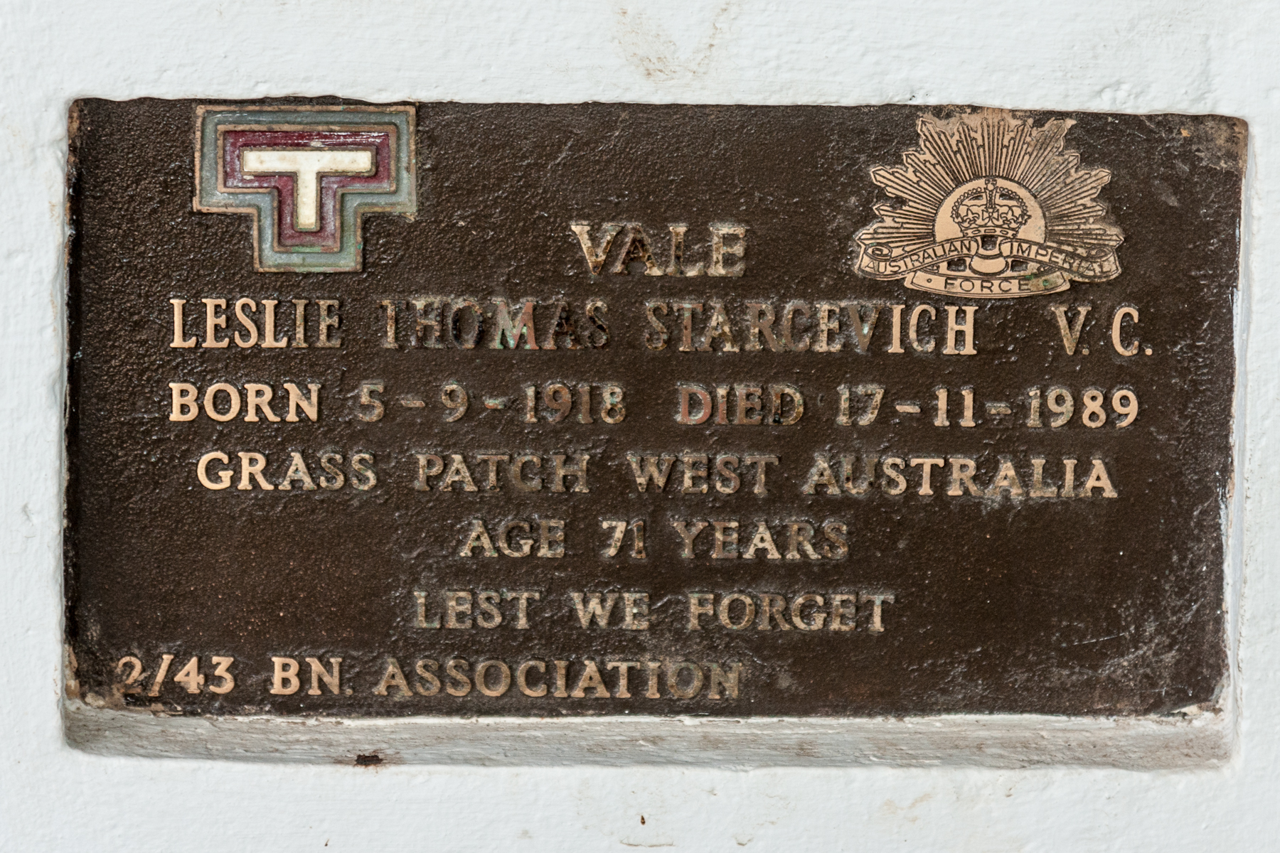 Beaufort, Sabah: Starcevich Memorial Monument